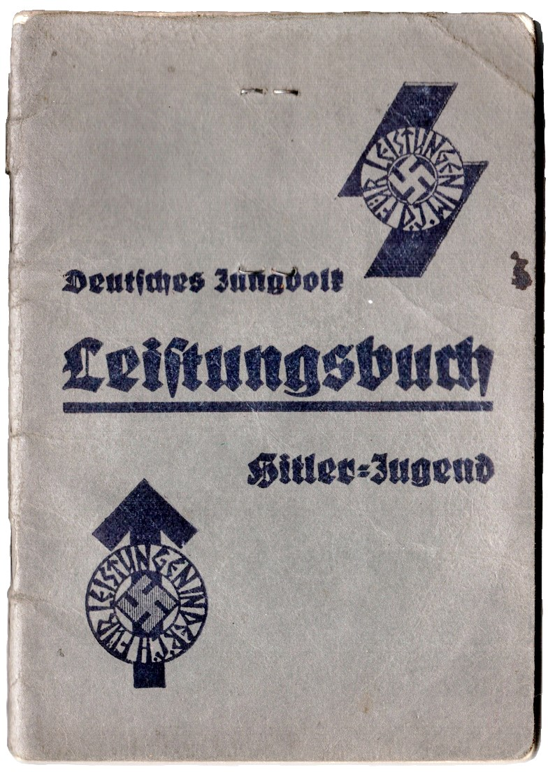 "Leistungsbuch" (Performance booklet) of a Hitler Youth / Deutsches Jungvolk member. The symbol in the upper right, based on the Sowilo rune, reads "For accomplishments in the DJ (Deutsches Jungvolk)". The symbol in the lower left, based on the Tiwaz rune, reads "For accomplishments in the HJ (Hitler Jugend)".